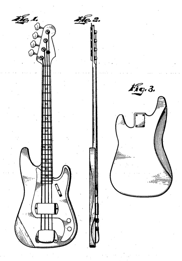 A Patent sketch (D187,001) for the Fender Precision Bass